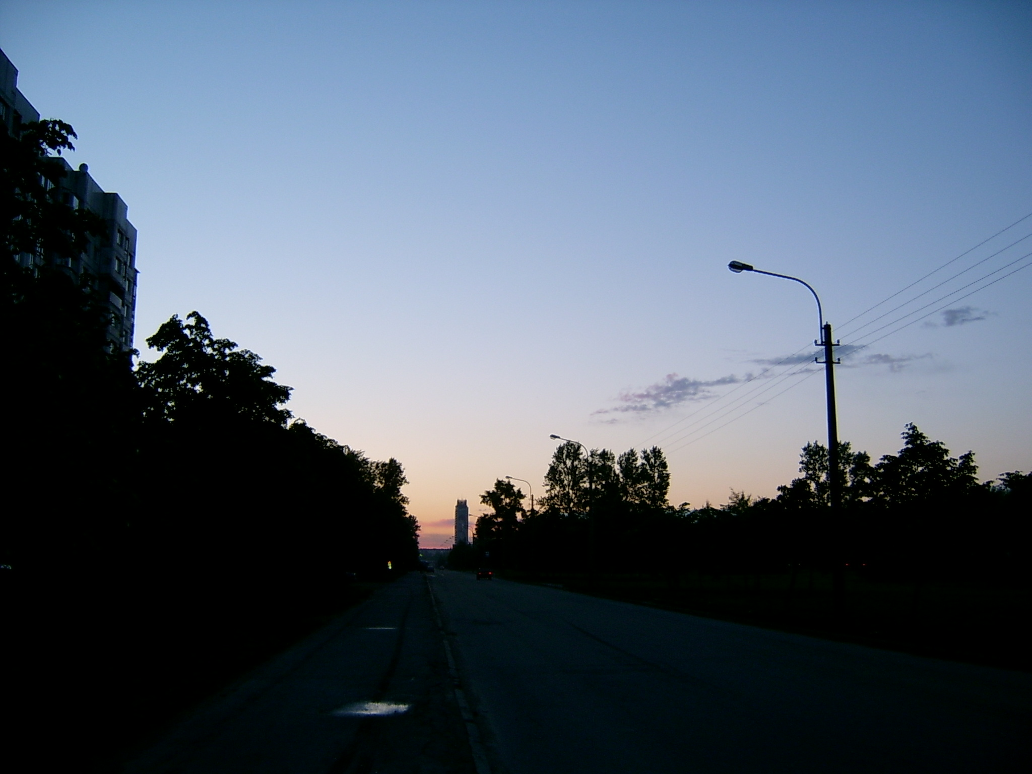 White nights in St. Petersburg